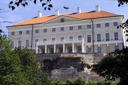 Tallinn: the Old Town of Tallinn: the Stenbocks House.